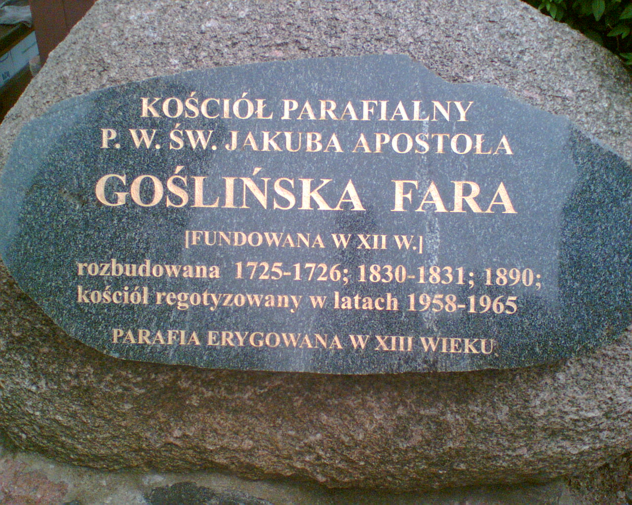 Curch St. Jacob in town Murowana Goślina